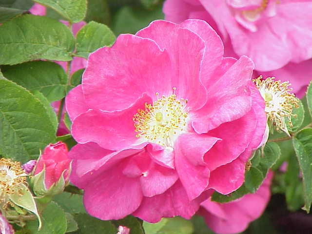 Species: Rosa gallica officinalis Family: Rosaceae Image No. 1